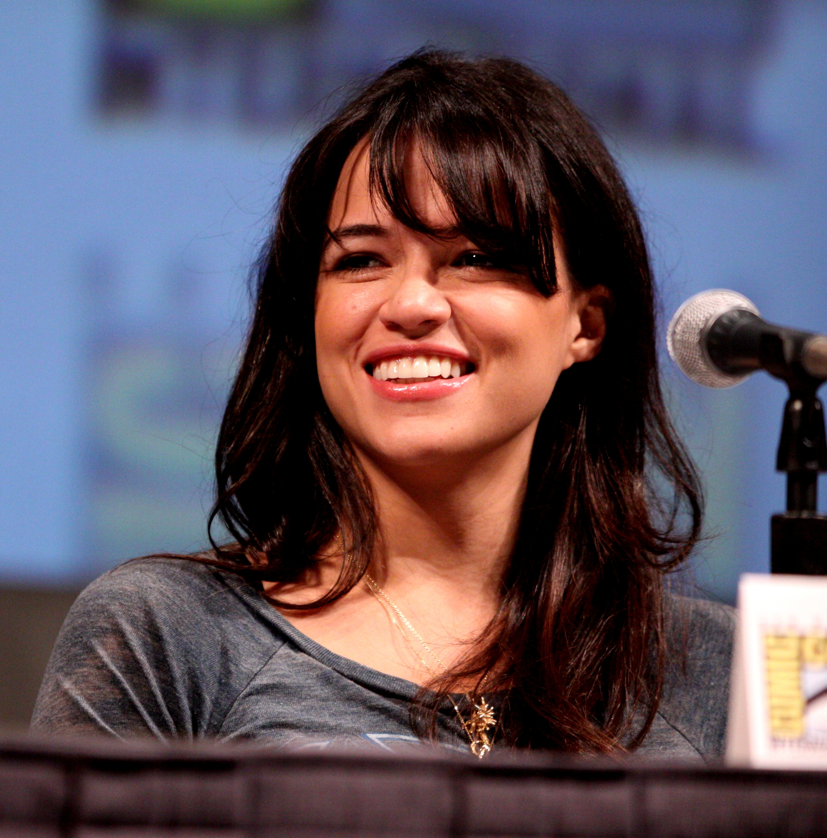 Actress Michelle Rodriguez on the Battle: Los Angeles panel at the 2010 San Diego Comic Con in San Diego, California